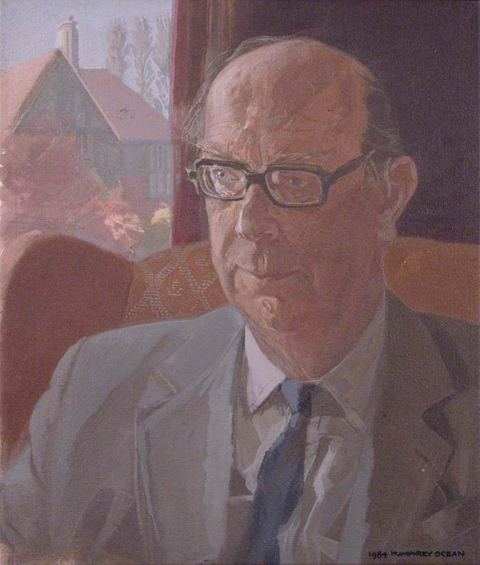 Ocean, Humphrey; Philip Larkin; National Portrait Gallery, London, copyright owned by Humphrey Ocean, permission given to publish on Wikipedia